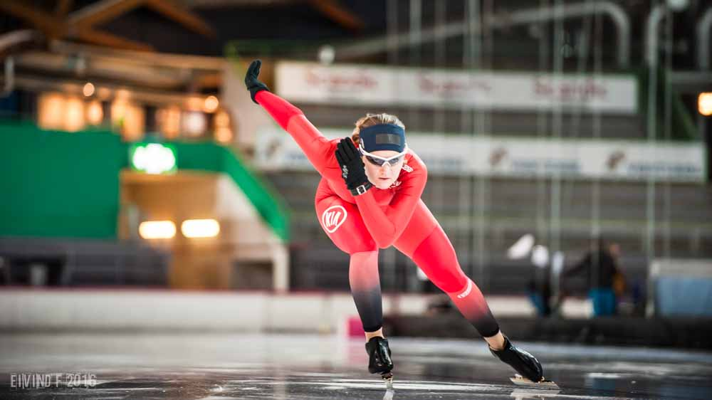 Norwegian speedskater